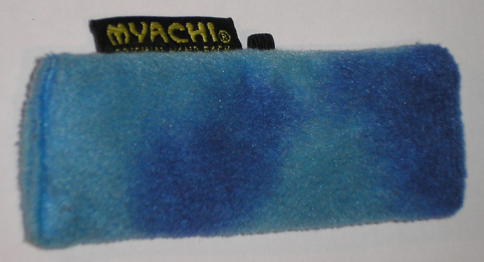 This is my Myachi. Esto es una foto de mi myachi.